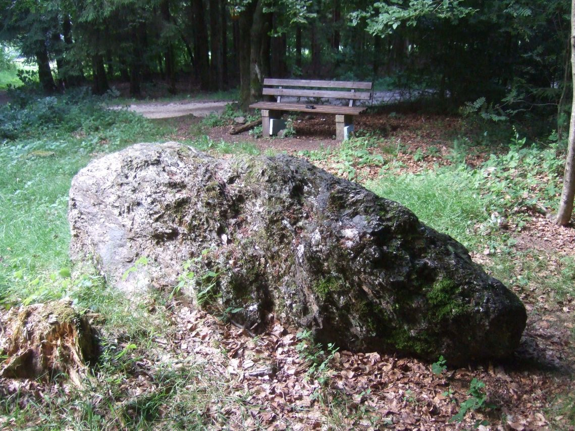 Farschweiler, Hinkelstein